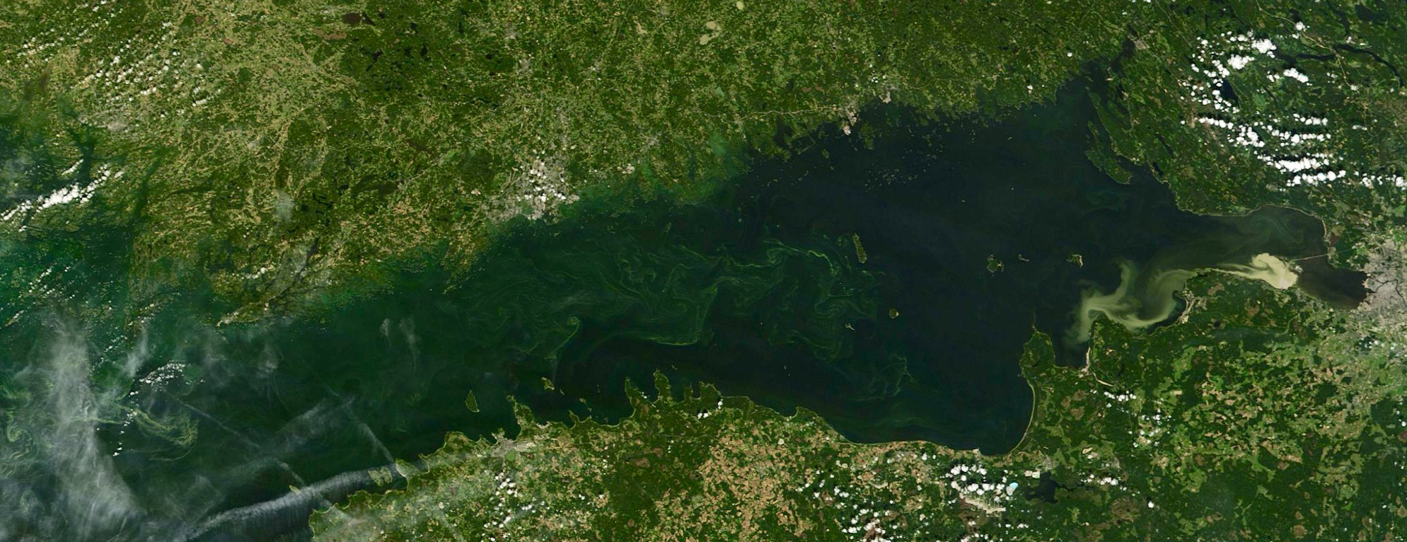 Algal bloom at Bay of Finland